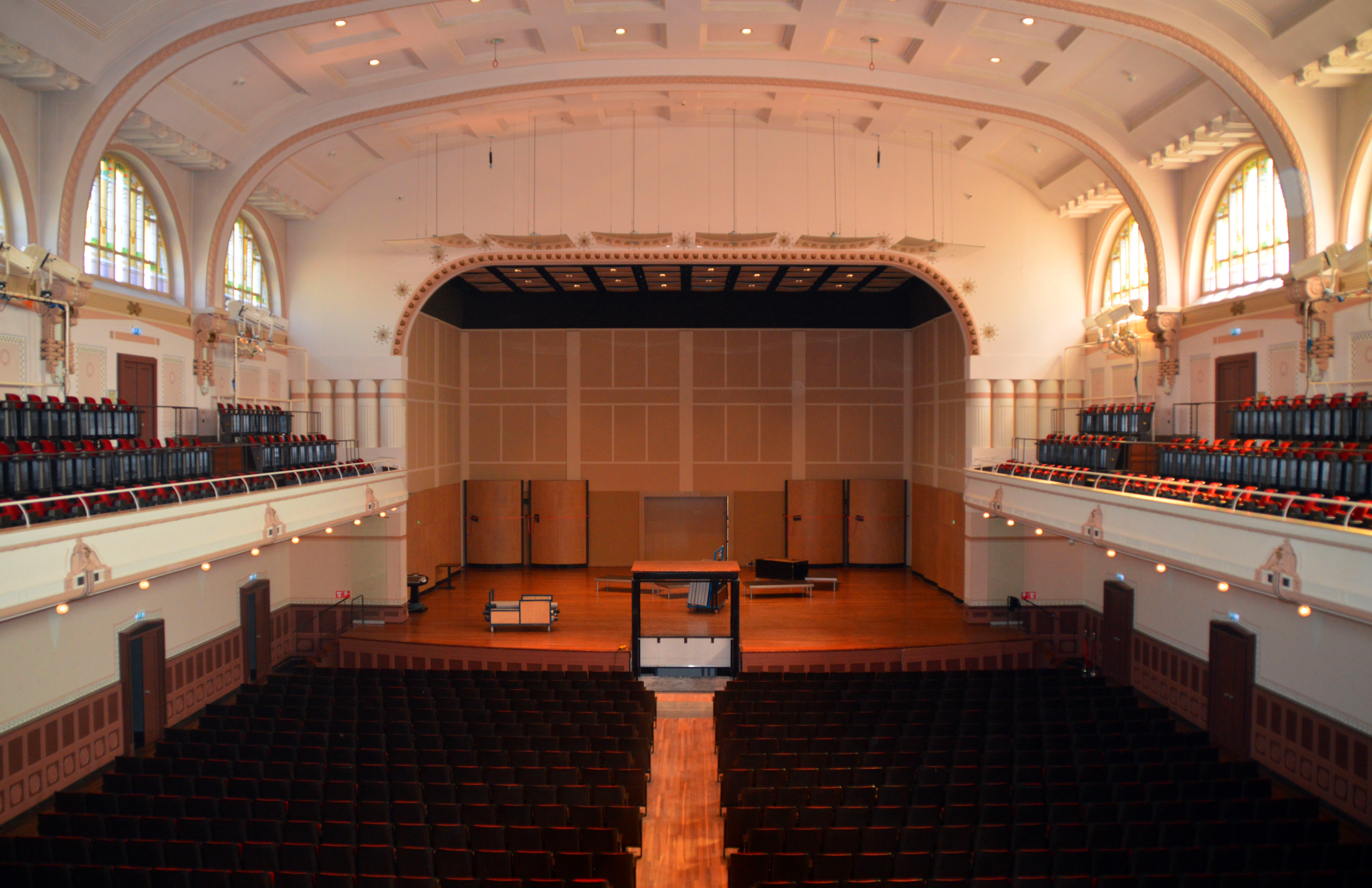 Concertgebouw de Vereeniging Great Hall stage Nijmegen